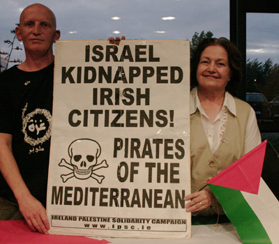 Mairead and Derek